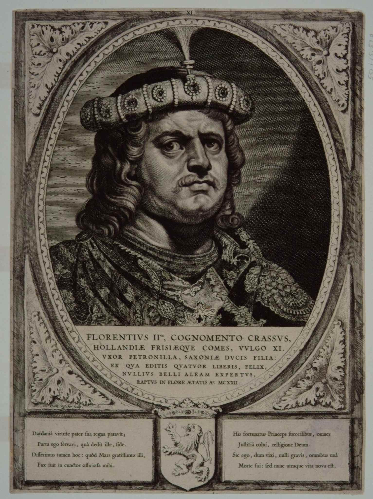 Floris II of Holland